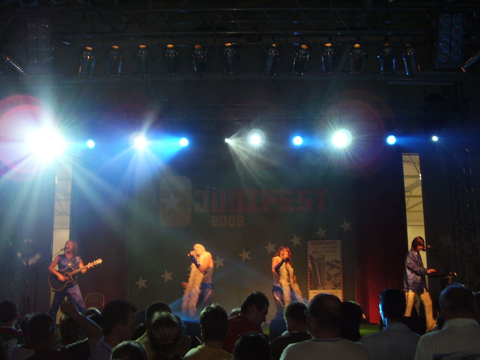 Baccara performing at Junifest in Bratislava